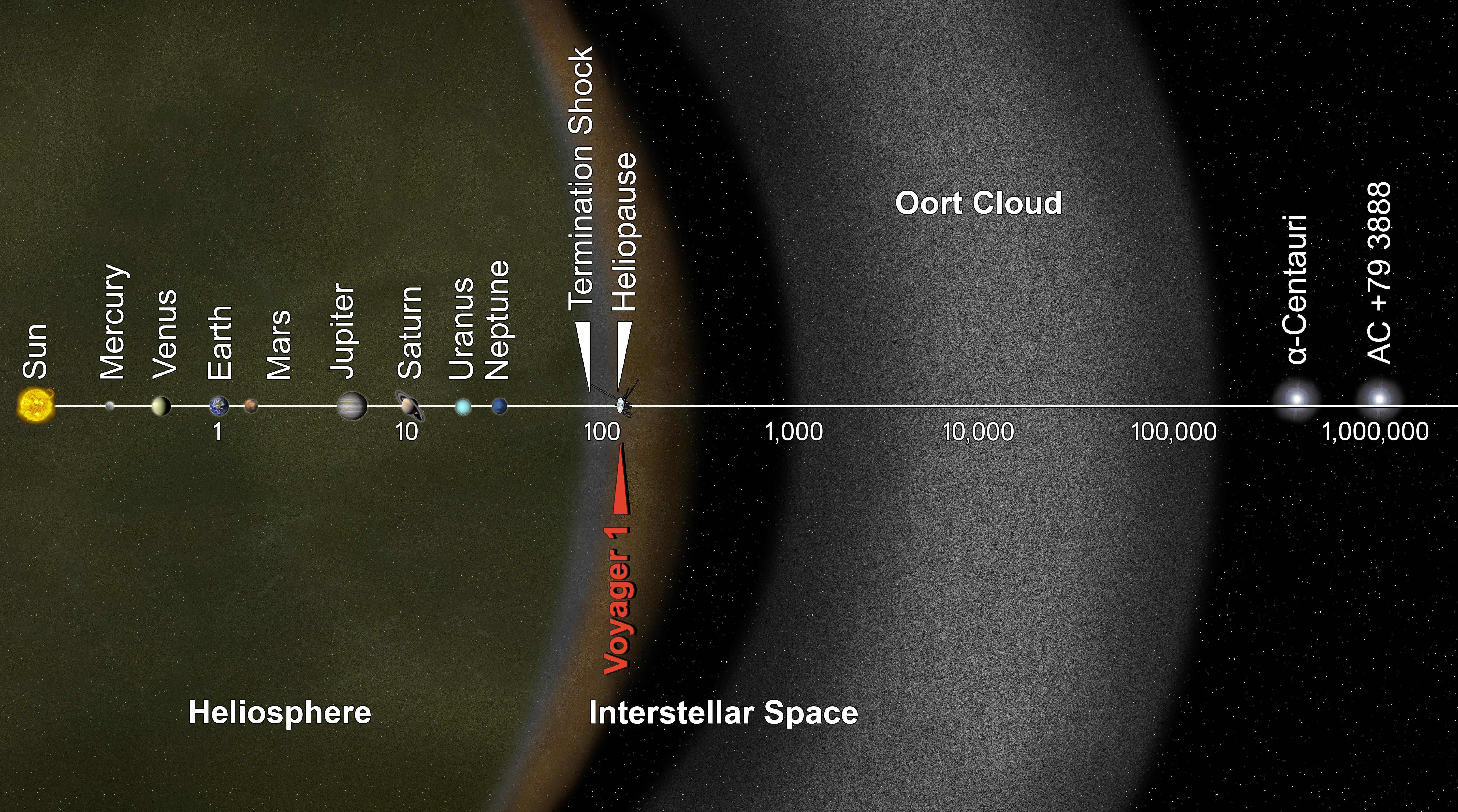 This artist's concept puts solar system distances in perspective. The scale bar is in astronomical units, with each set distance beyond 1 AU representing 10 times the previous distance. One AU is the distance from the sun to the Earth, which is about 93 million miles or 150 million kilometers. Neptune, the most distant planet from the sun, is about 30 AU. Informally, the term "solar system" is often used to mean the space out to the last planet. Scientific consensus, however, says the solar system goes out to the Oort Cloud, the source of the comets that swing by our sun on long time scales. Beyond the outer edge of the Oort Cloud, the gravity of other stars begins to dominate that of the sun. The inner edge of the main part of the Oort Cloud could be as close as 1,000 AU from our sun. The outer edge is estimated to be around 100,000 AU. NASA's Voyager 1, humankind's most distant spacecraft, is around 145 AU far away. Scientists believe it entered interstellar space, or the space between stars, on Aug. 25, 2012. Some of interstellar space is actually inside our solar system. It will take about 300 years for Voyager 1 to reach the inner edge of the Oort Cloud and possibly about 30,000 years to fly beyond it. Alpha Centauri is currently the closest star to our solar system. But, in 40,000 years, Voyager 1 will be closer to the star AC +79 3888 than to our own sun. The Voyager spacecraft were built and continue to be operated by NASA's Jet Propulsion Laboratory, in Pasadena, Calif. Caltech manages JPL for NASA. The Voyager missions are a part of NASA's Heliophysics System Observatory, sponsored by the Heliophysics Division of the Science Mission Directorate at NASA Headquarters in Washington. For more information about Voyager, visit and